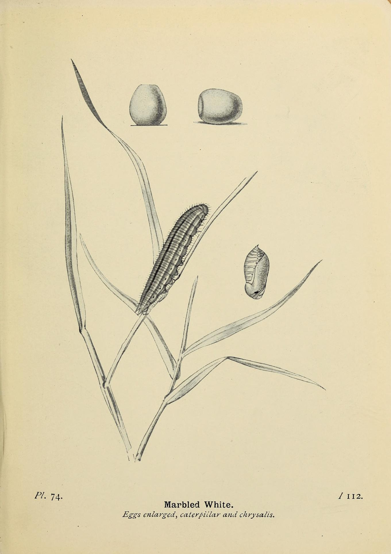 South1906Plate74